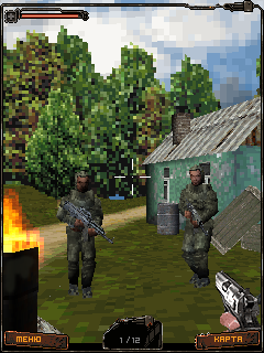 Screenshot from game S.T.A.L.K.E.R. Mobile.